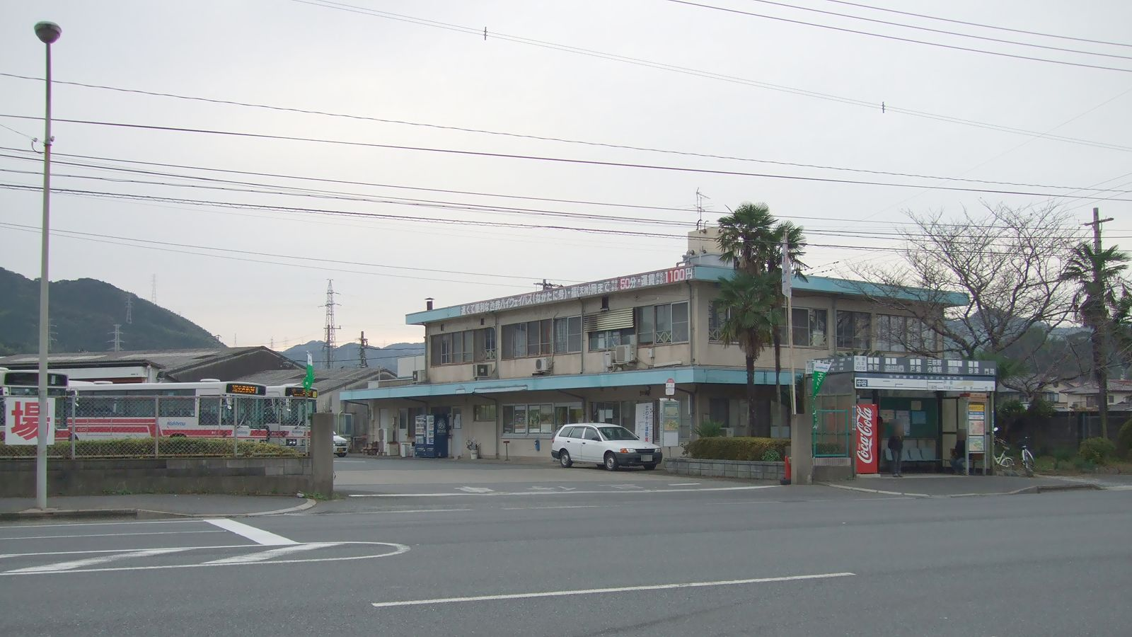 Nishitetsu bus Kitakyushu Nakatani Depot